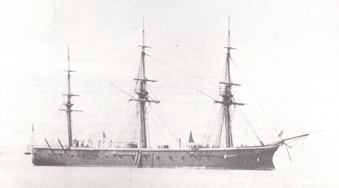 Photograph of British central battery ironclad battleship HMS Bellerophon as she appeared when completed in 1866.